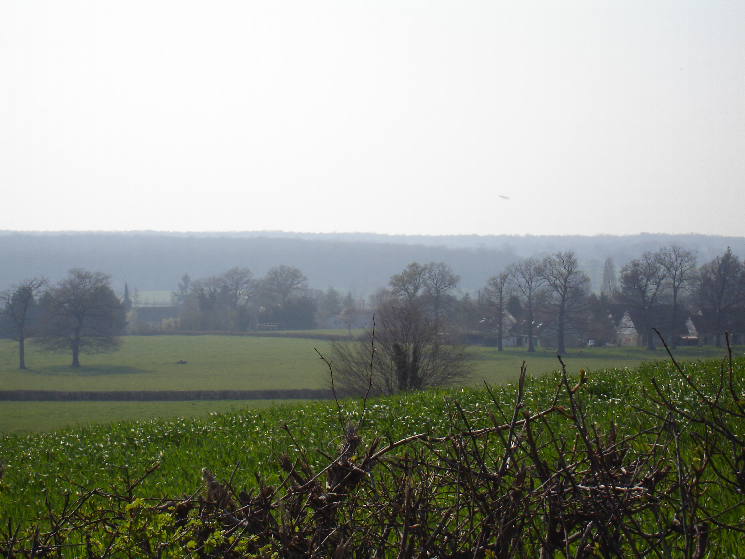 General view of the small town of Budelière, Creuse, France